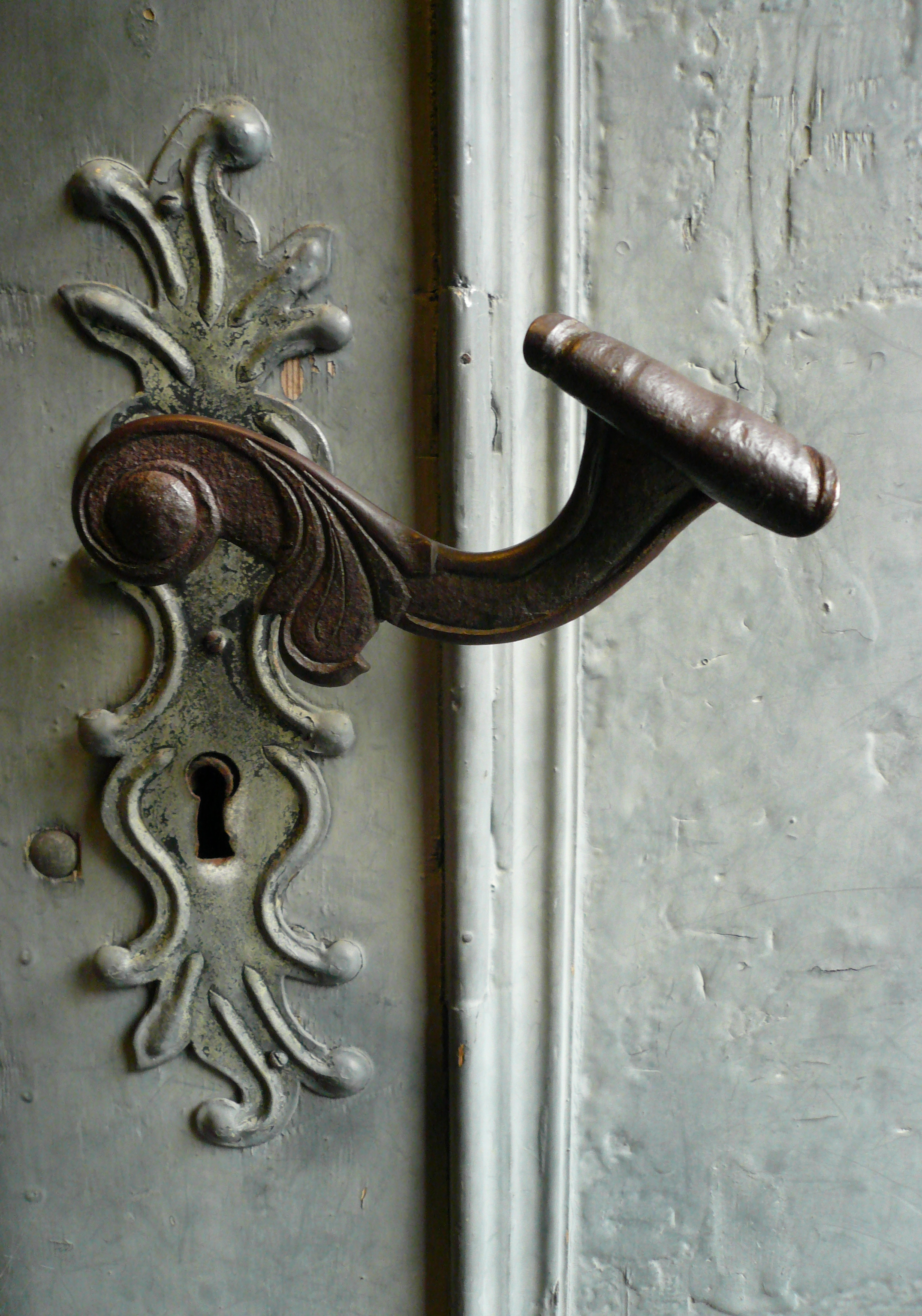 Doorhandle at Danckert Krohns stiftelse (1789)